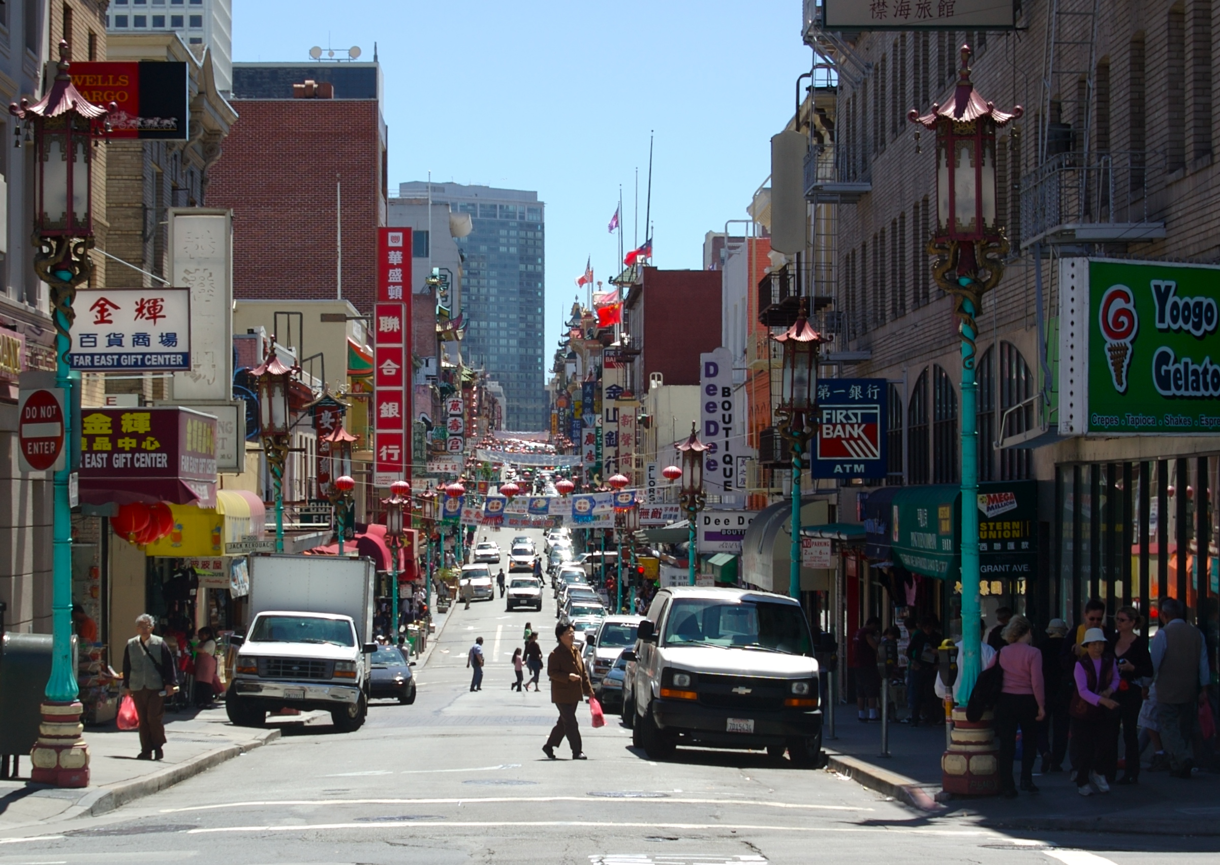 Chinatown, San Francisco